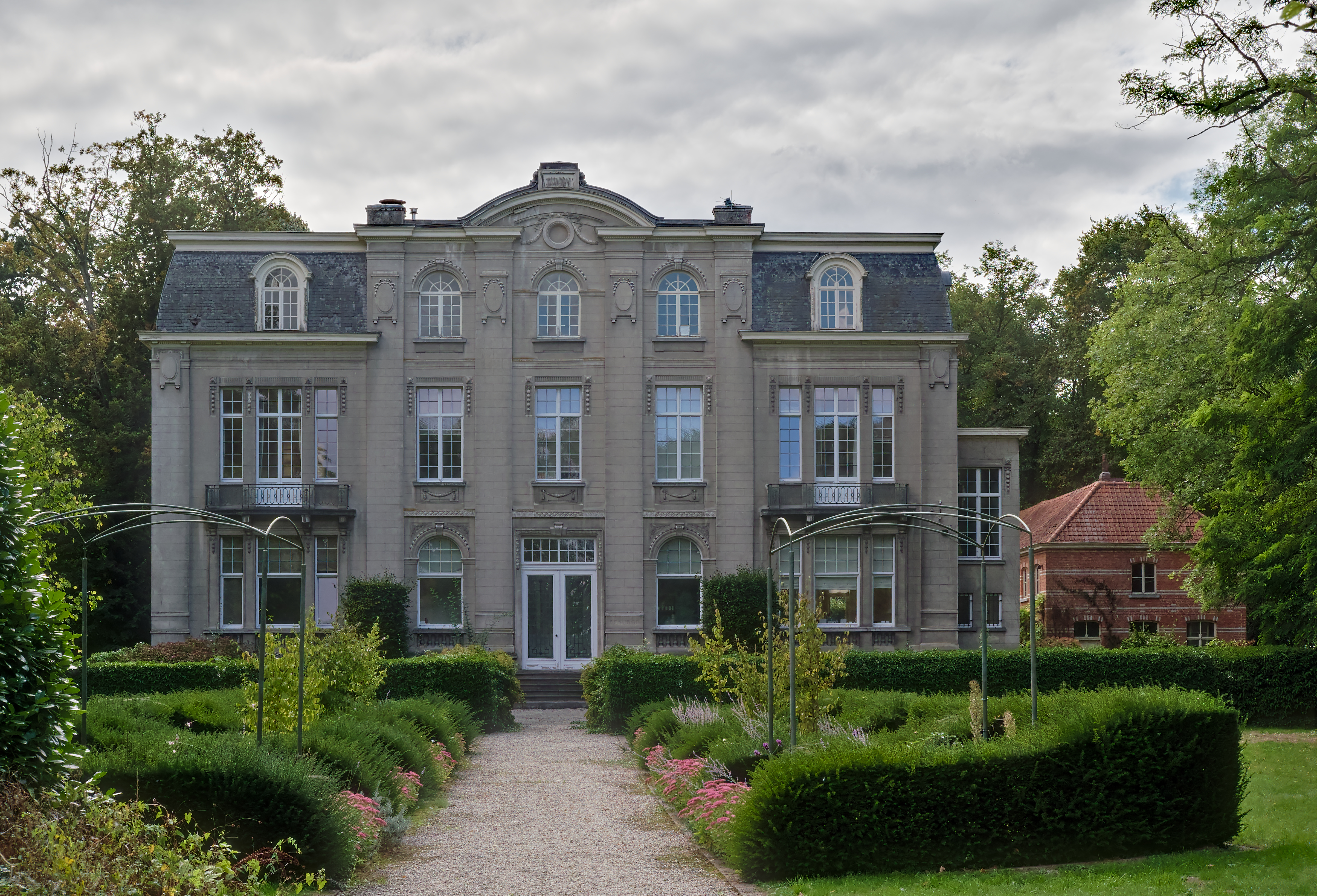 Ronsele castle in Zomergem, Belgium This photo of immovable heritage has been taken in the Flemish Region